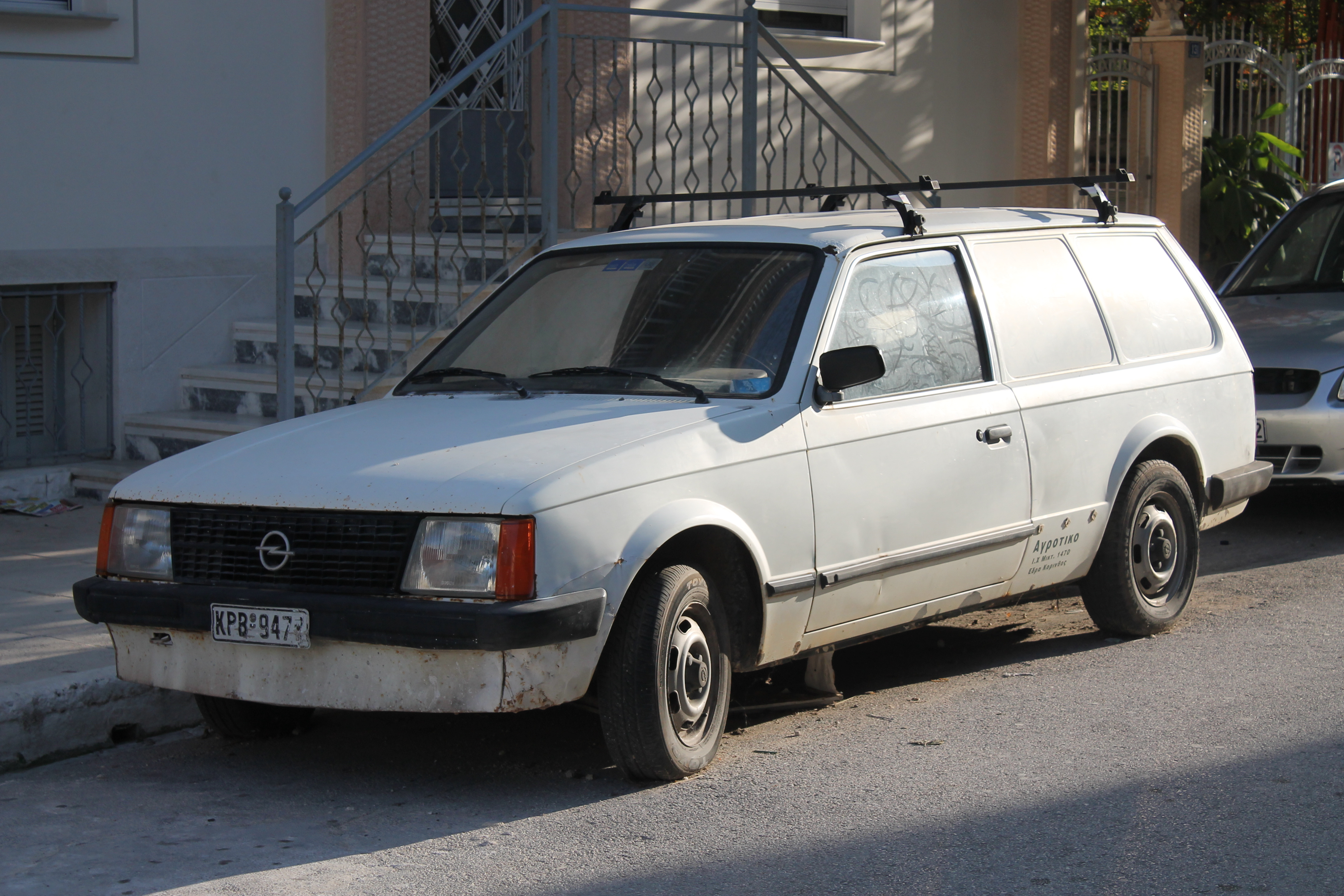 I really like these, the Astras in the UK must be really rare now. Think this was the only one I spotted in Greece.